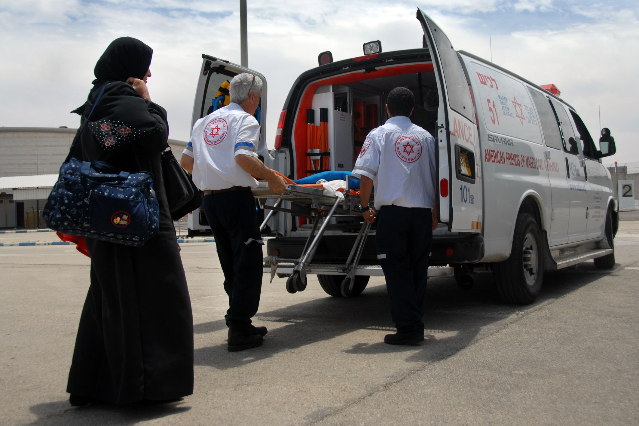 May 20th, 2011. 10 Gazans were transferred for medical treatment in Israel through the Erez crossing. Photography: Cpl. Gal Ashuach, IDF Spokesperson's Unit עשרה תושבי רצועת עזה הועברו לישראל דרך מעבר ארז על-מנת לקבל טיפול רפואי.